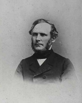 Christian Frederik August Ishøy